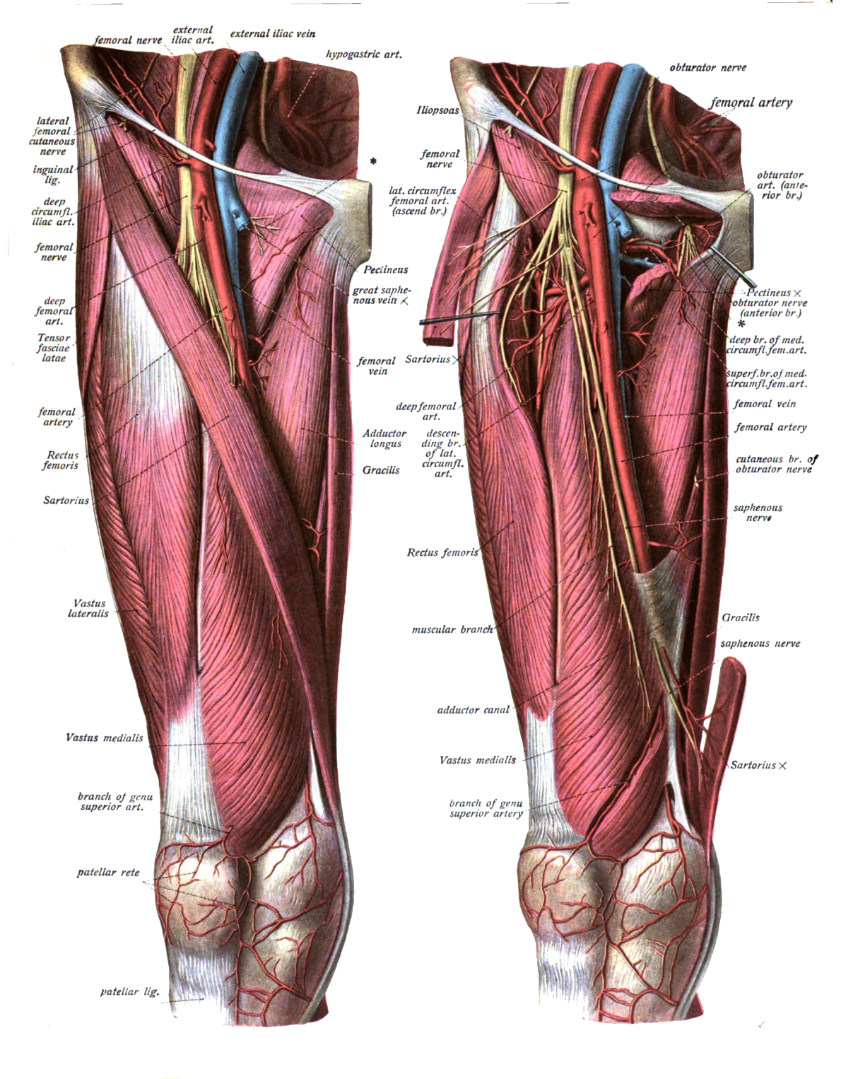 Anterior view of the thigh. An anatomical illustration from Sobotta's Human Anatomy 1908